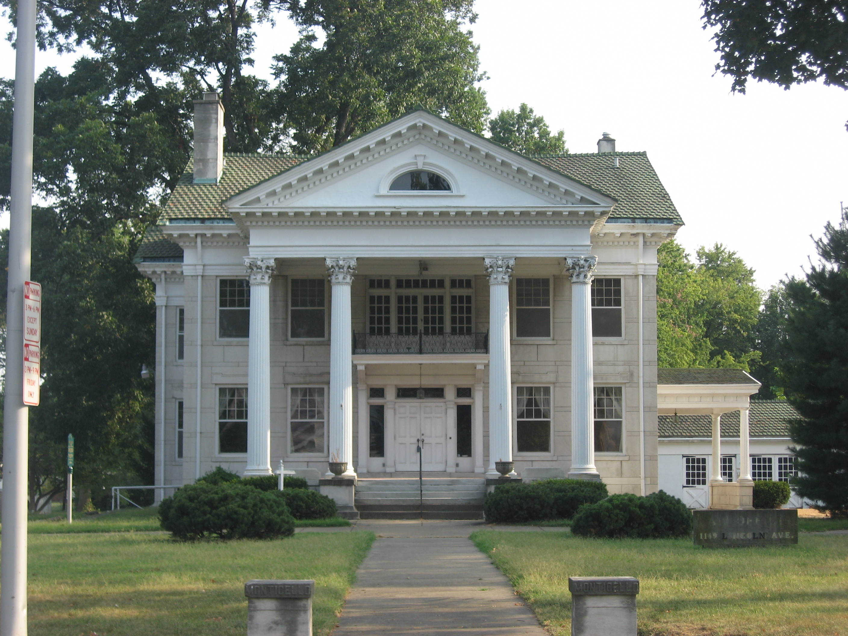 Front of the John W. Boehne House, located at 1119 Lincoln Avenue in Evansville, Indiana, United States. Built in 1912, it is listed on the National Register of Historic Places.